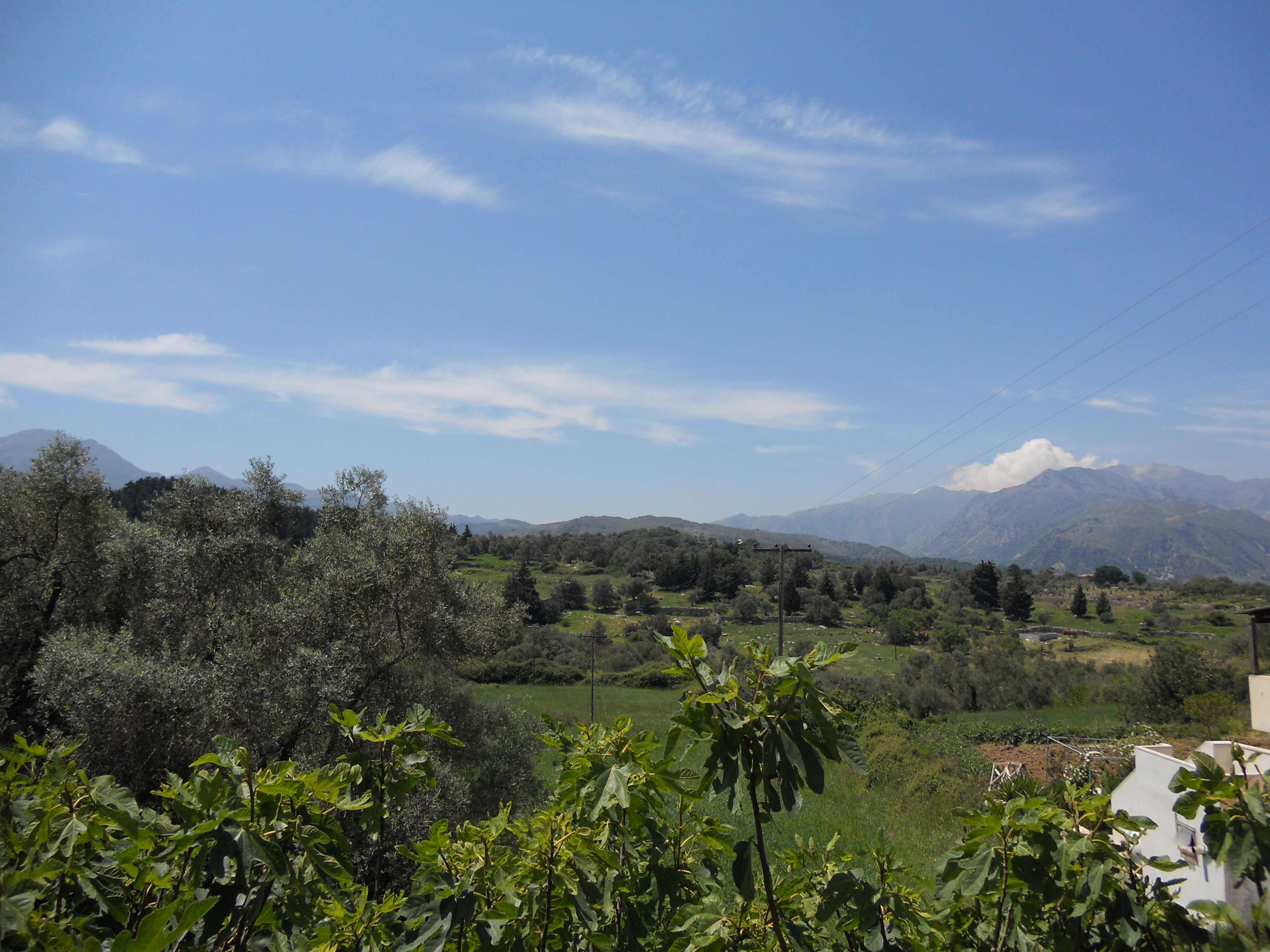 View to the south at spring